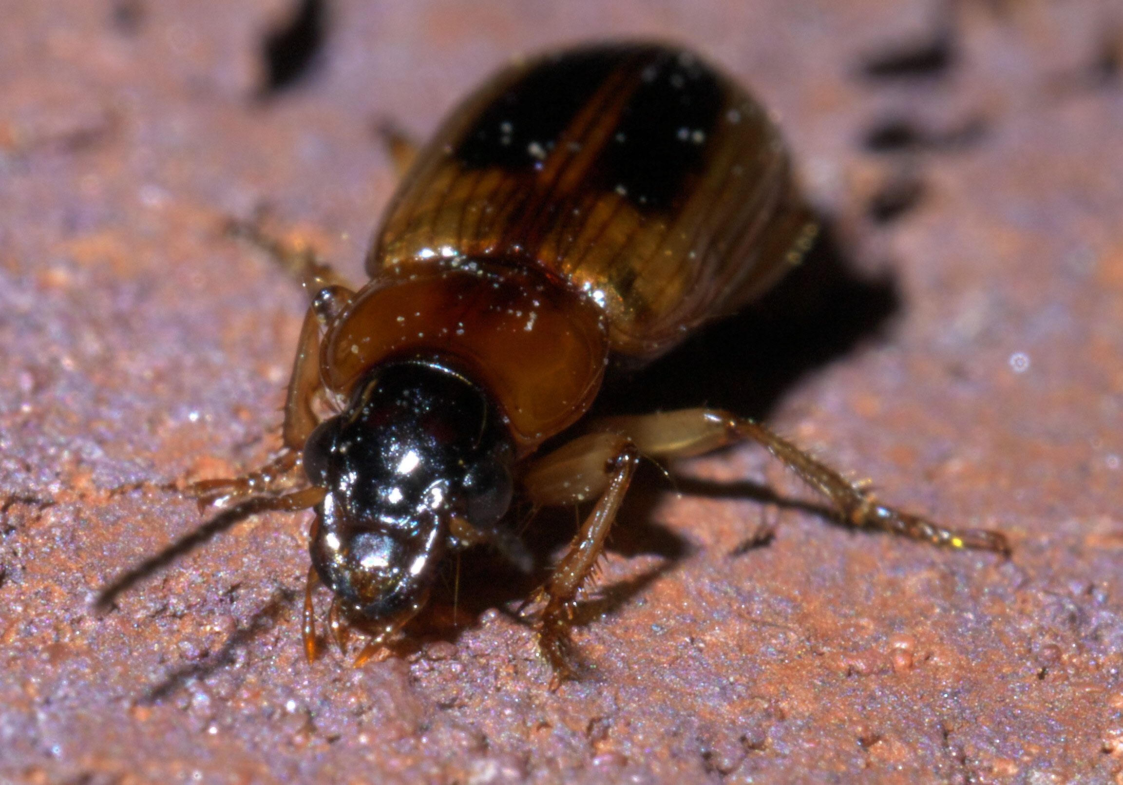 Stenolophus lecontei, LeConte's Seedcorn Beetle, ID Confidence: 88